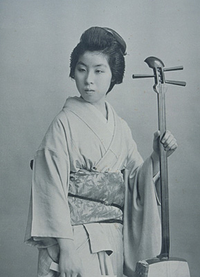 Ikuyo of Yoshicho, Tokyo. Photographer: Kazumasa Ogawa, 1902.